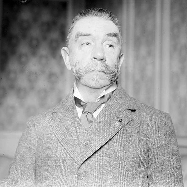 Walter Winans (1852-1920), American sculptor, horse breeder and marksman who won a gold medal in shooting sports at the Olympic Games 1908 and a silver medal in 1912, as well as a gold medal in the art competitions of the Olympic Games 1912 for his sculpture "An American Trotter"